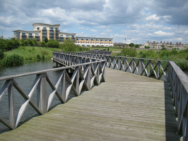 Jetty in Cardiff Bay, Wales. This zig-zag jetty in Cardiff Bay provides good views of the wildlife in Wetland